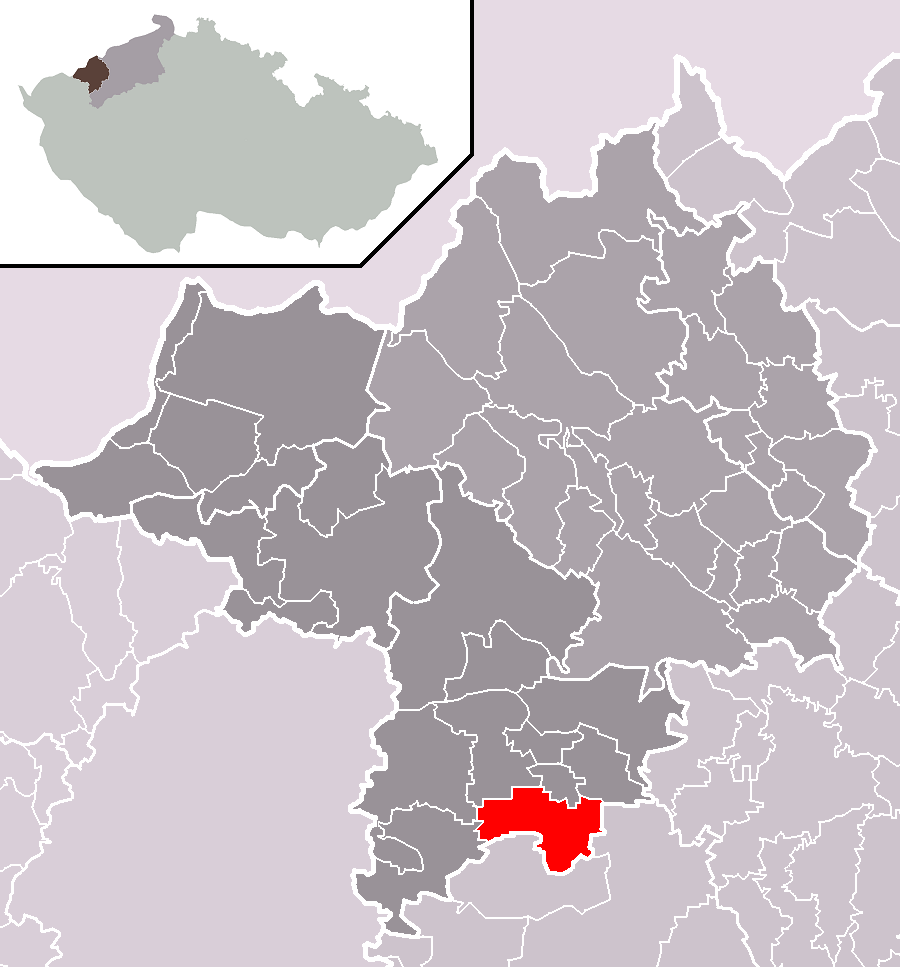 Location of Veliká Ves municipality within Chomutov District and administrative area of Kadaň as a Municipality with Extended Competence.